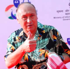 Victor Banerjee at the closing ceremony of IFFI 2013